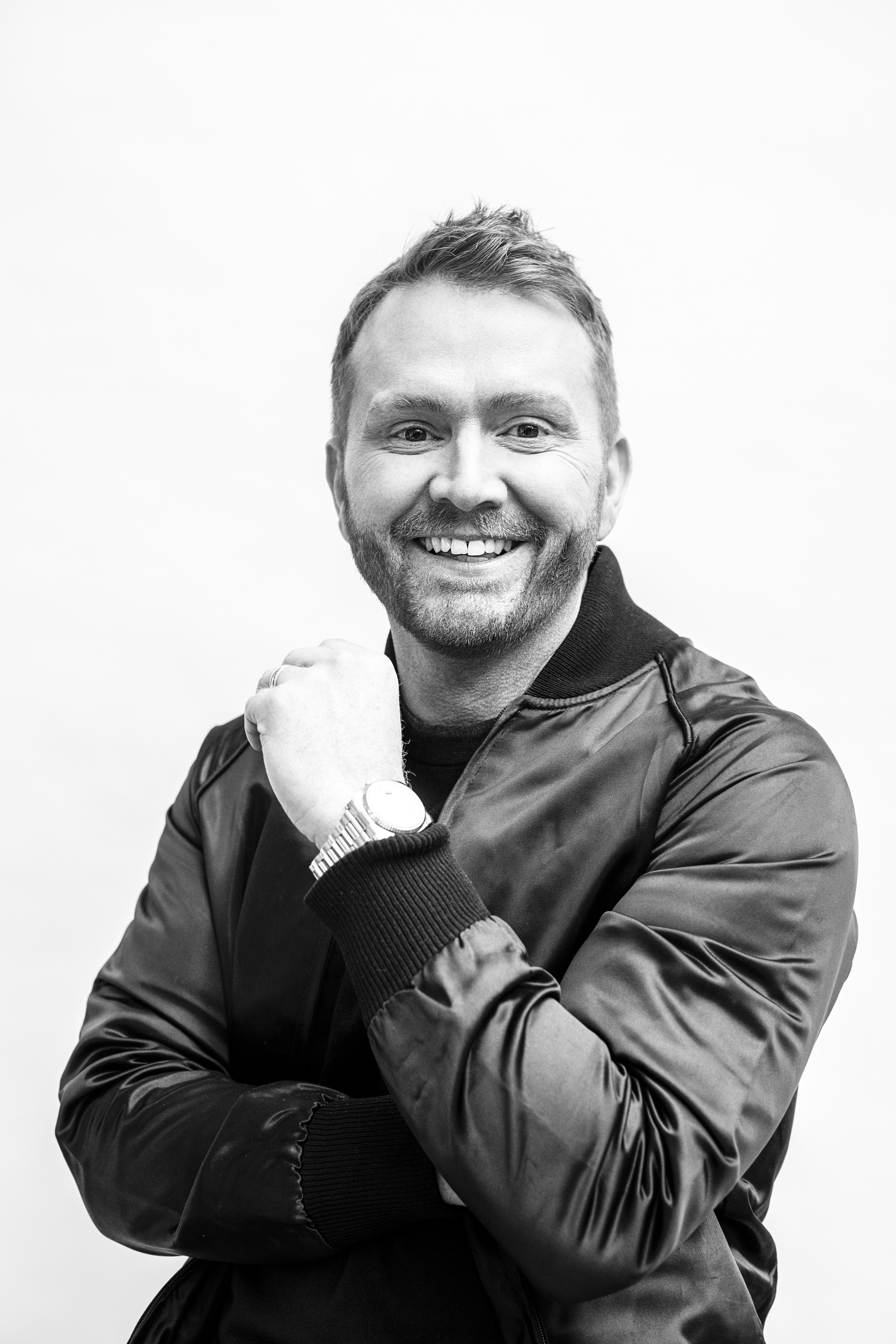 Shane Current Headshot